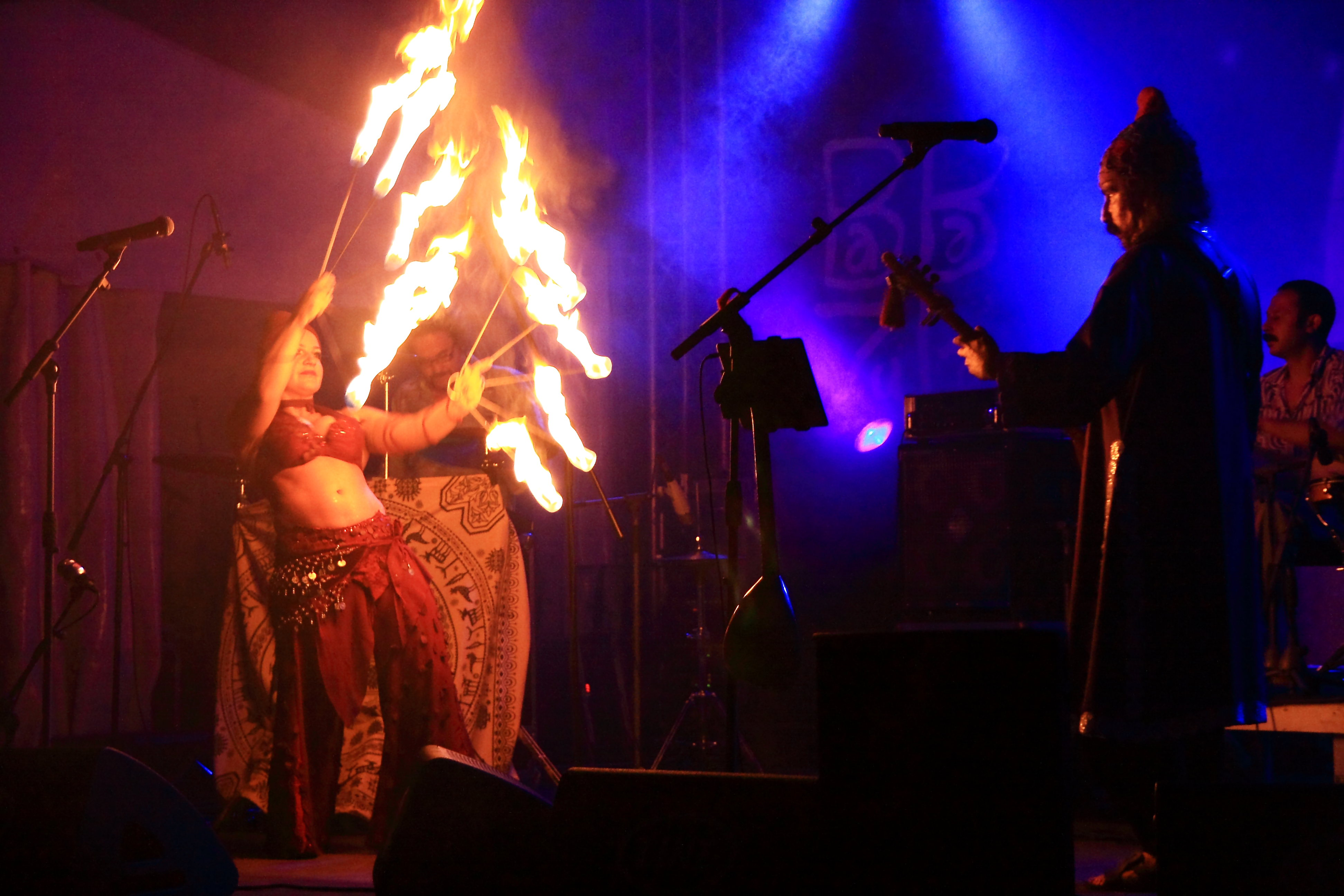 BaBa Zula at TFF Rudolstadt 2012.